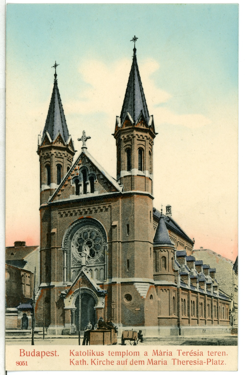 Sacred Heart Church. - 25 Mária Street, Budapest District VIII., Hungary